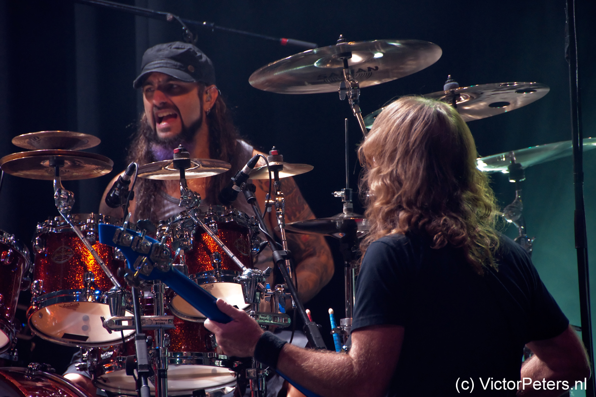 Mike Portnoy playing with Flying Colors, 013, Tilburg (sept. 20., 20120). Bassist Dave LaRue is standing on the right with his back to the audience.